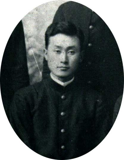 Kim kyoshin/Ham Seok-heon in his Bible Chosun period